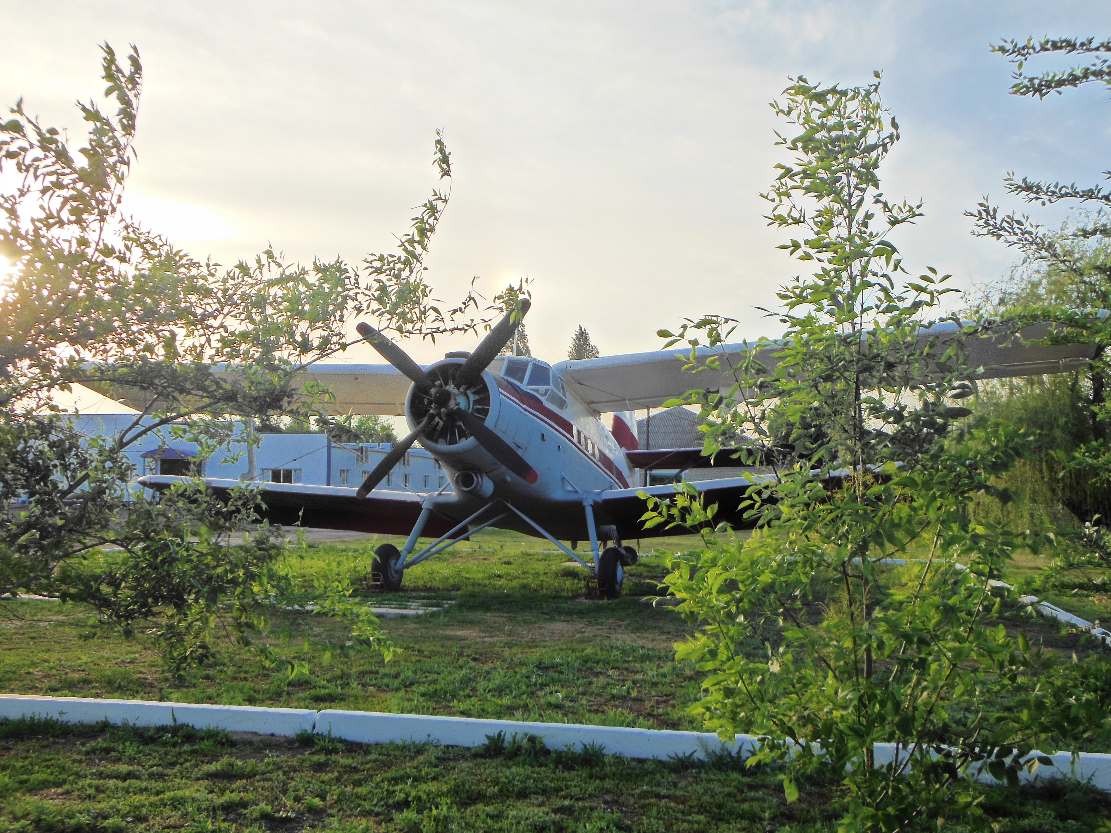 Antonov an-2 monument